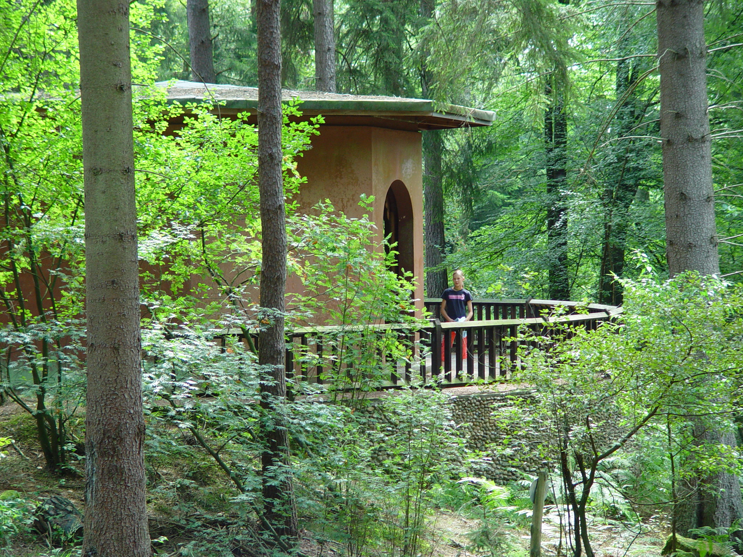 View of the renovated Toepfferturm.